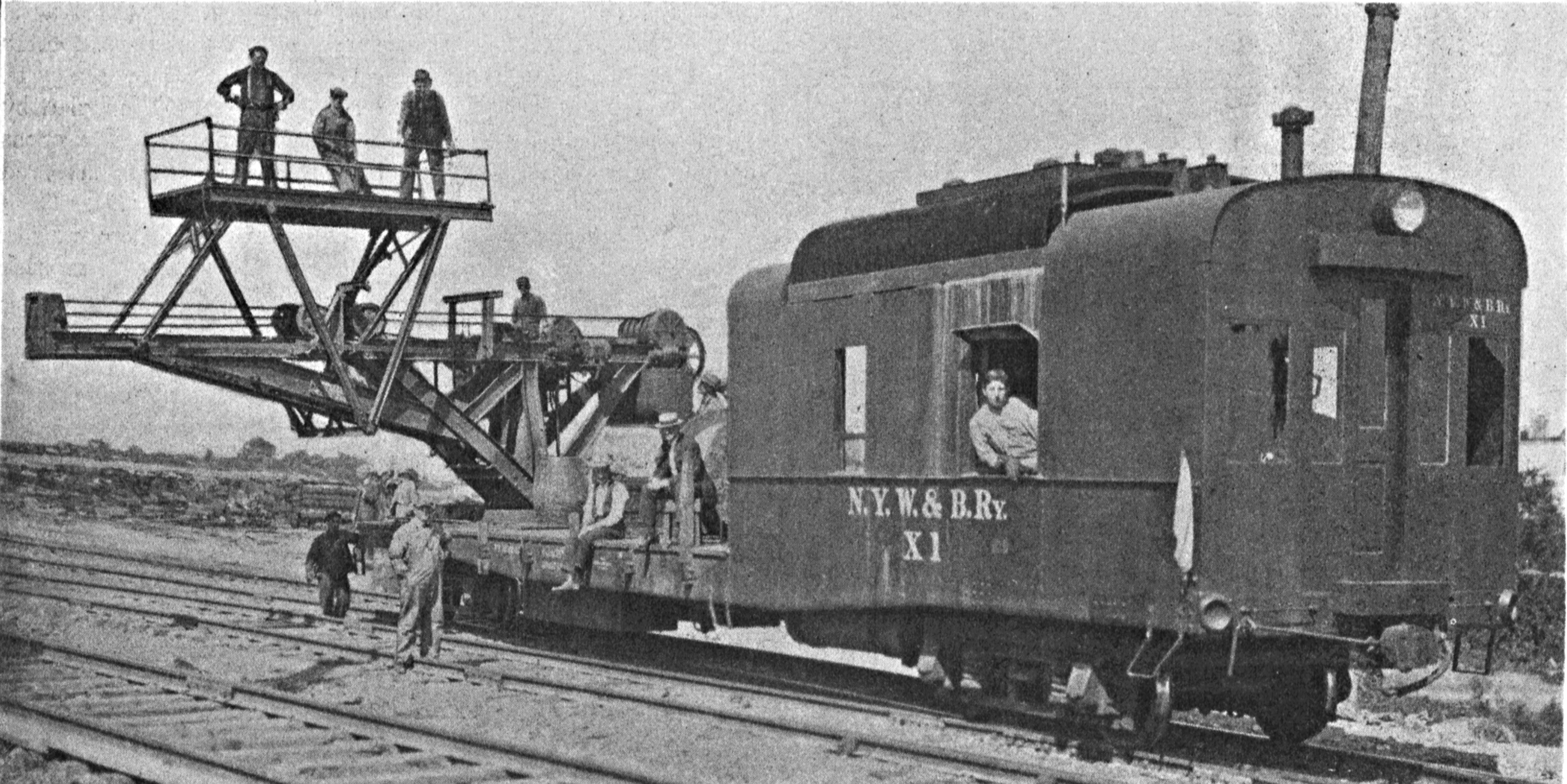 Gasoline-electric emergency line car of the New York, Westchester and Boston Railway.